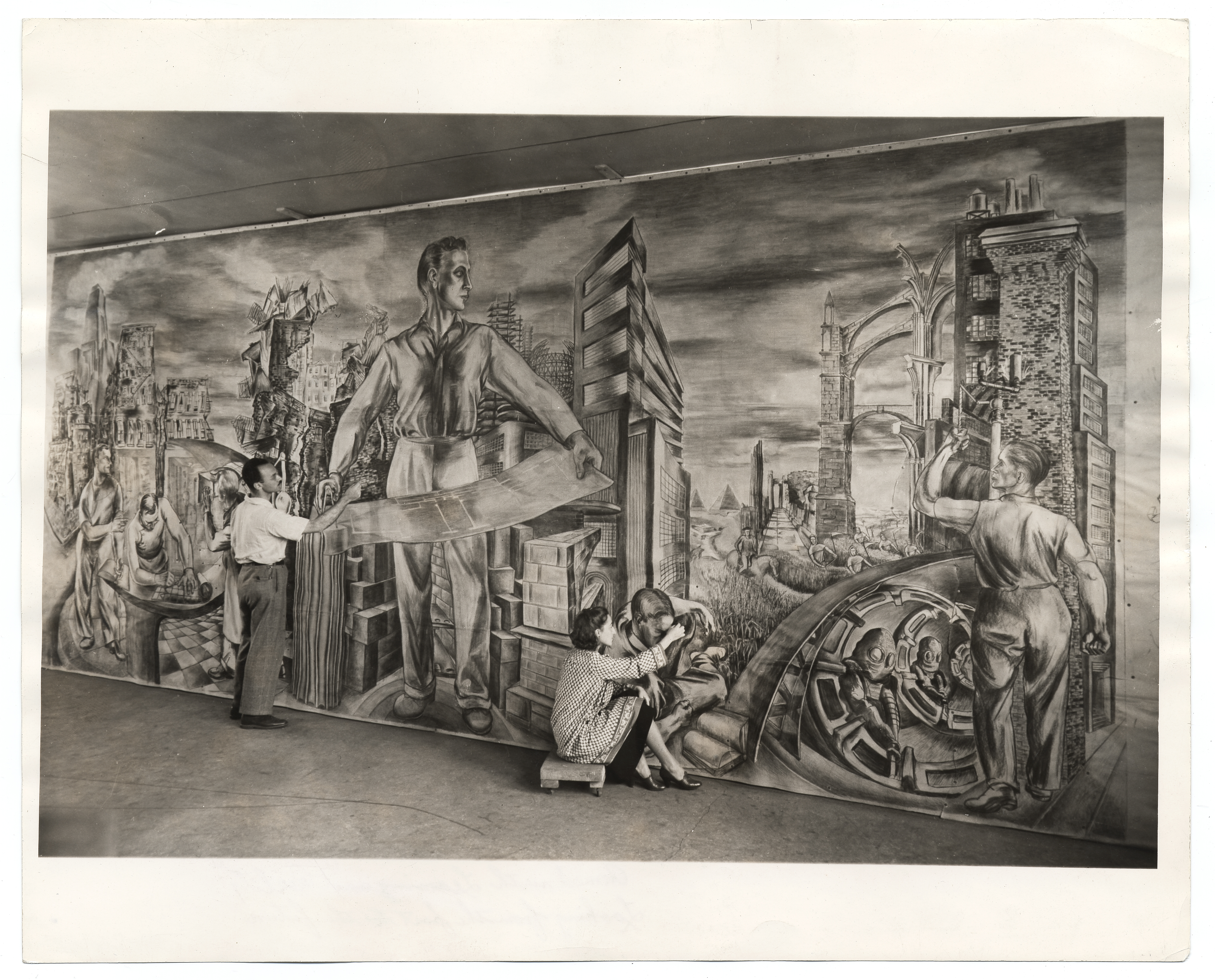 Karp and an unidentified female artist working on mural.Identification on verso (handwritten and stamped): Federal Art Project W.P.A.; Photographic Division; 110 King Street; New York City Negative No.: P2912-1; Date: 9/13/38; Photographer: Mipaas and Horn; Artist: William Karp; Location: Hebrew Orphan Asylum